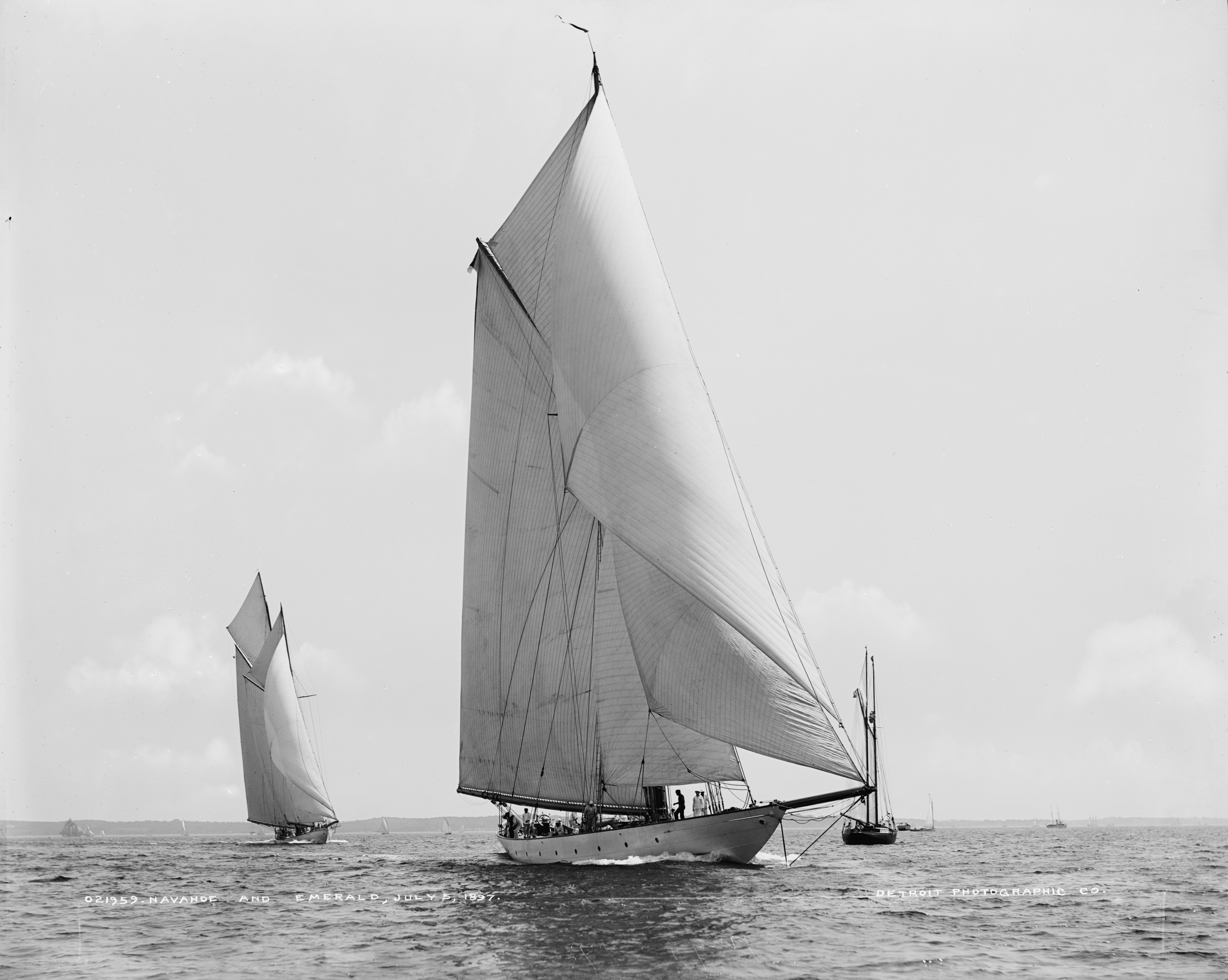 Royal Phelps Carroll's sloop Navahoe (Nathanael Greene Herreshoff design, 1893) and John Rogers Maxwell's steel schooner Emerald (Henry C. Wintringham design, 1893). They are pictured in a Larchmont Yacht Club regatta on July 5th, 1897, where both finished second in their respective sloop and schooner classes. New York Times - Vigilant beats navahoe